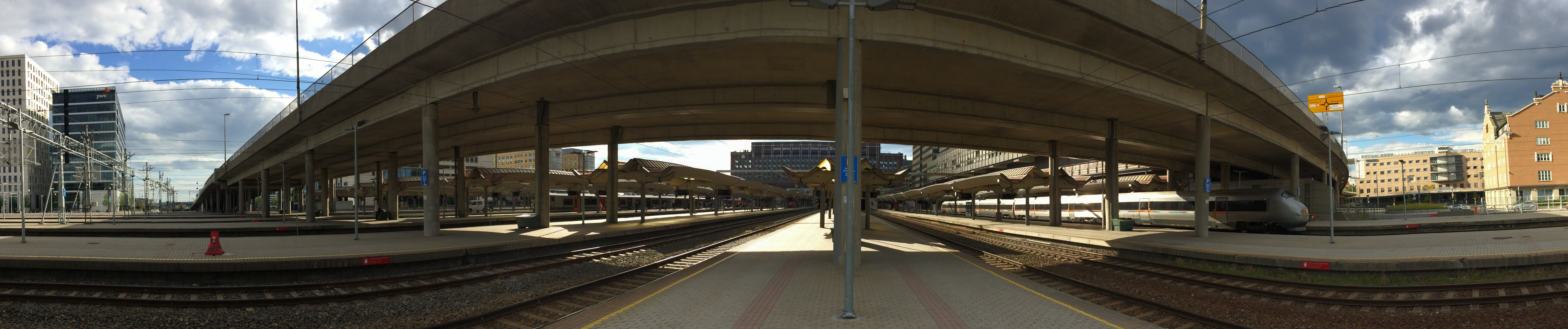 Oslo Central Station, Norway 12th June, 2015. (iPhone5 panoramic view; distortion may occur in details and continuity.)